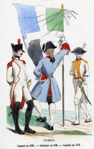 Uniform variations of the Régiment d'Enghien